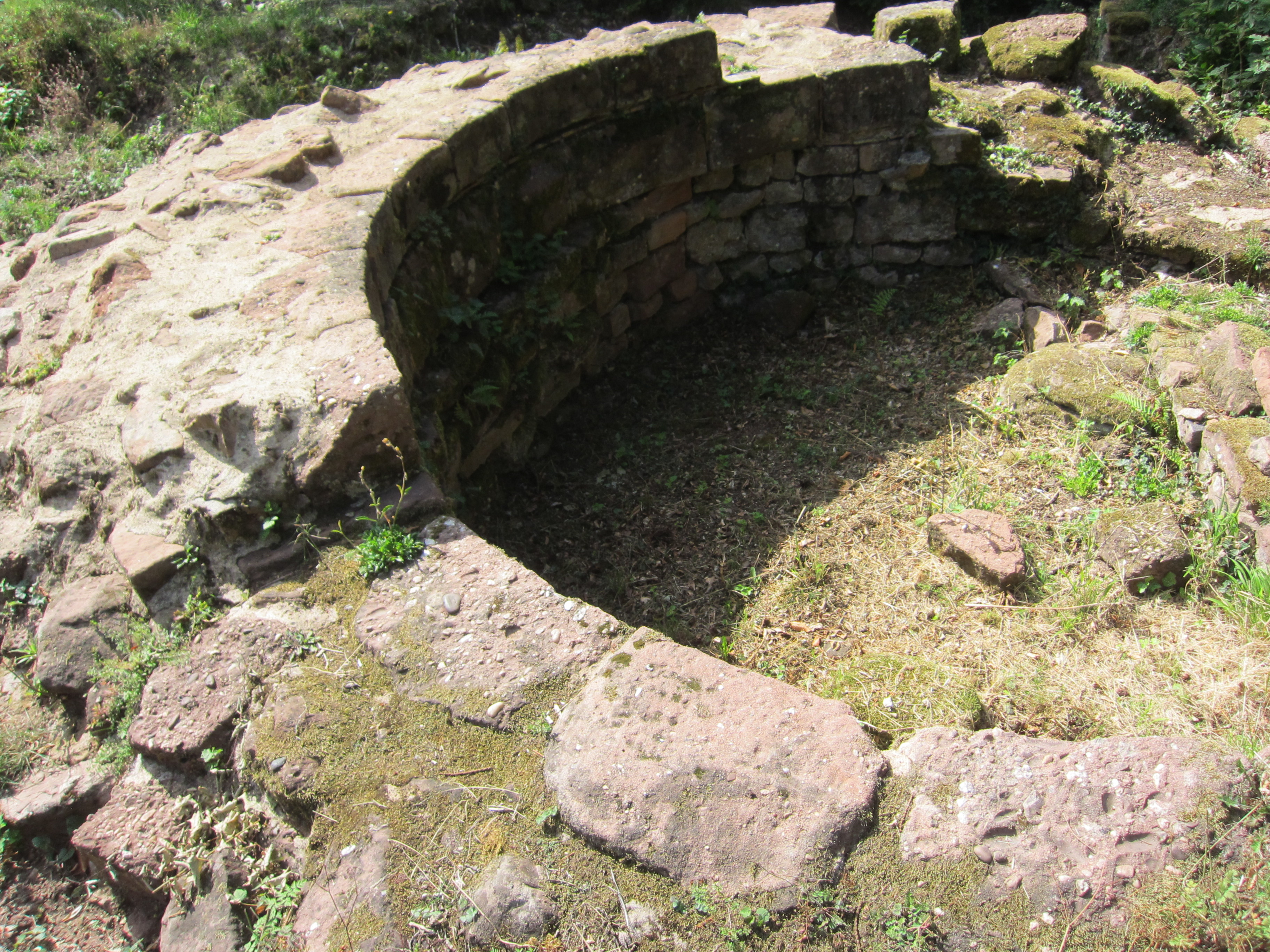 foundation of a circular tower